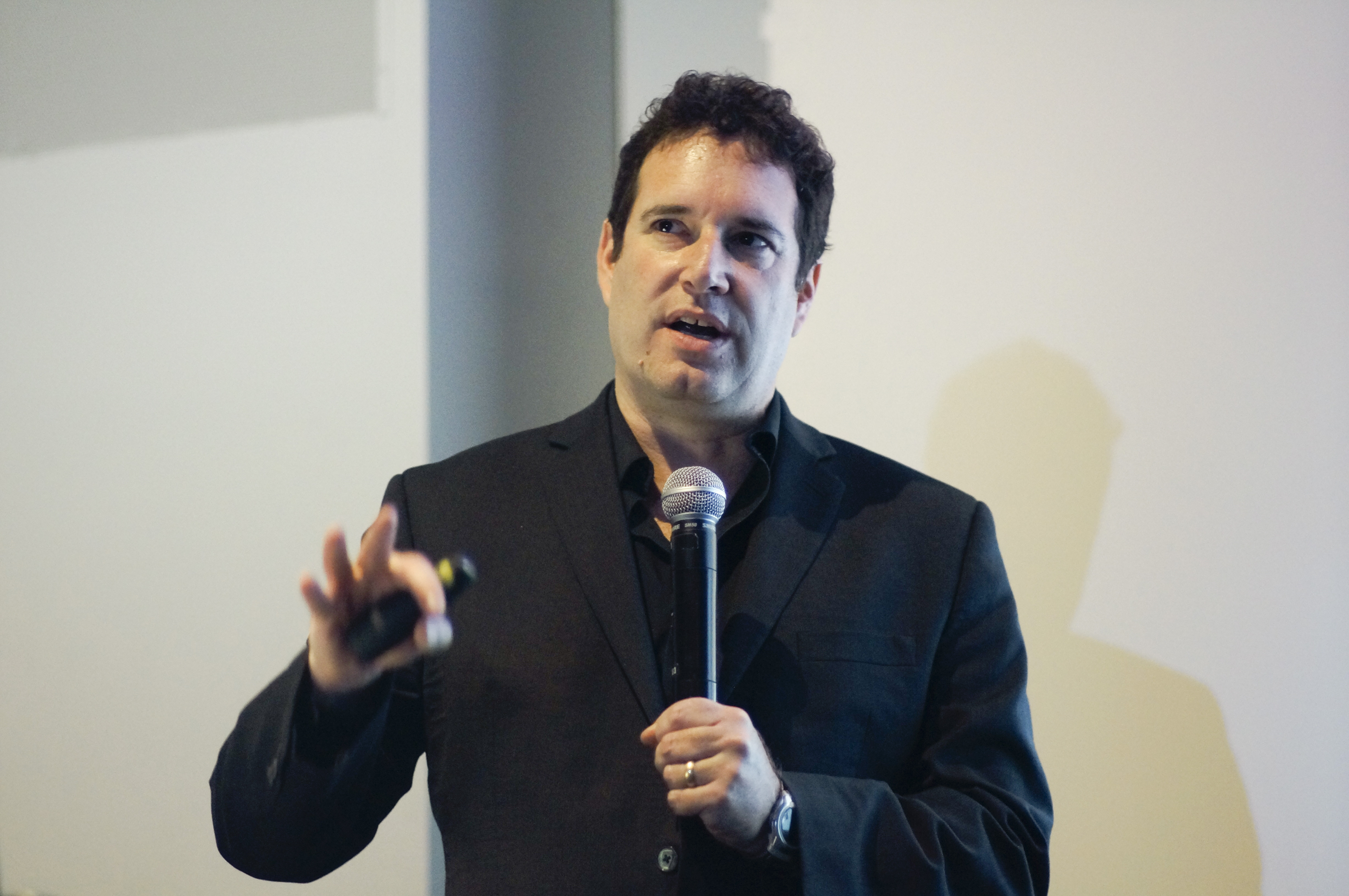 Lecture and discussion